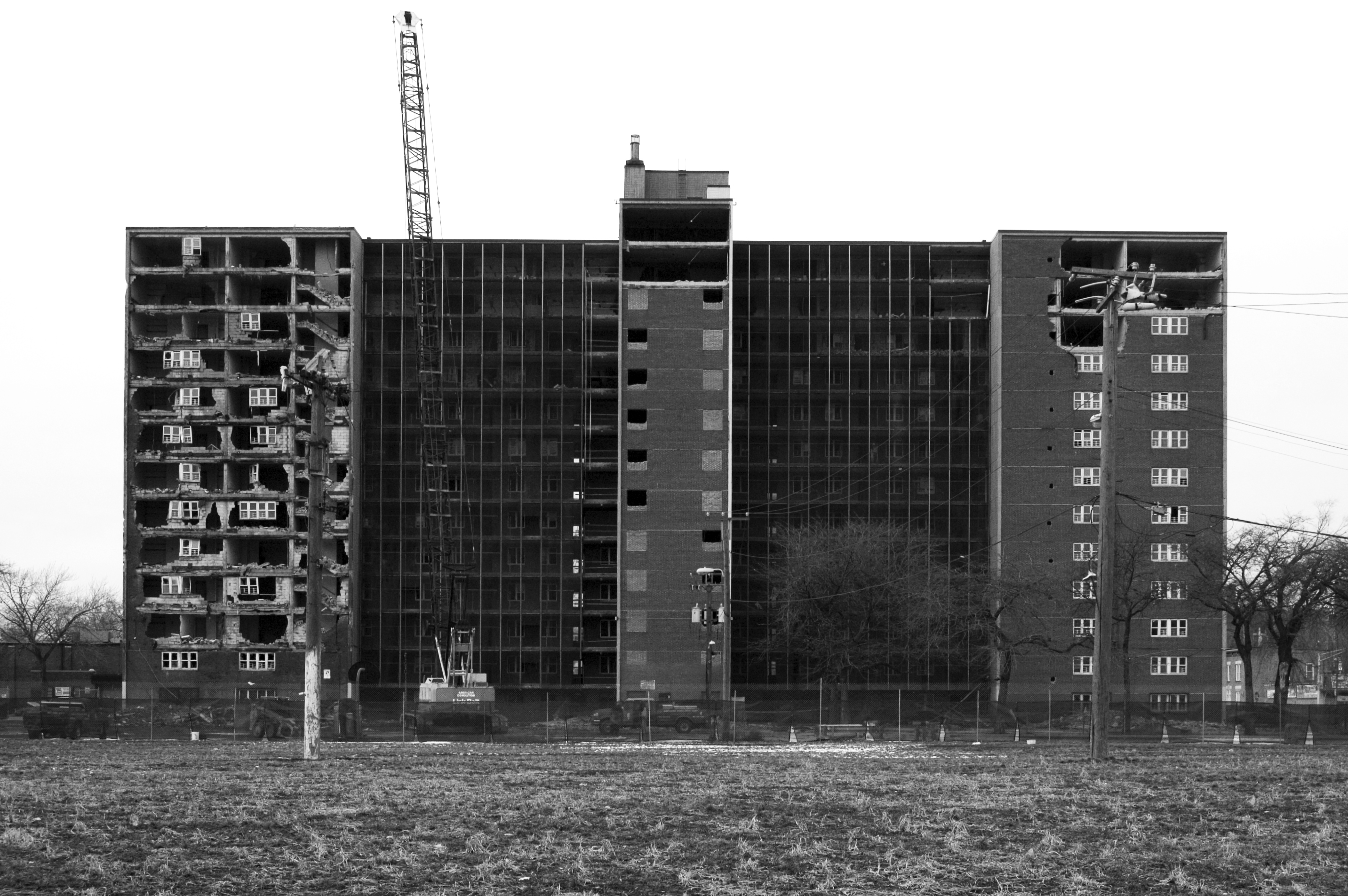 more pictures from the demolition of Rockwell Gardens on Chicago's west side